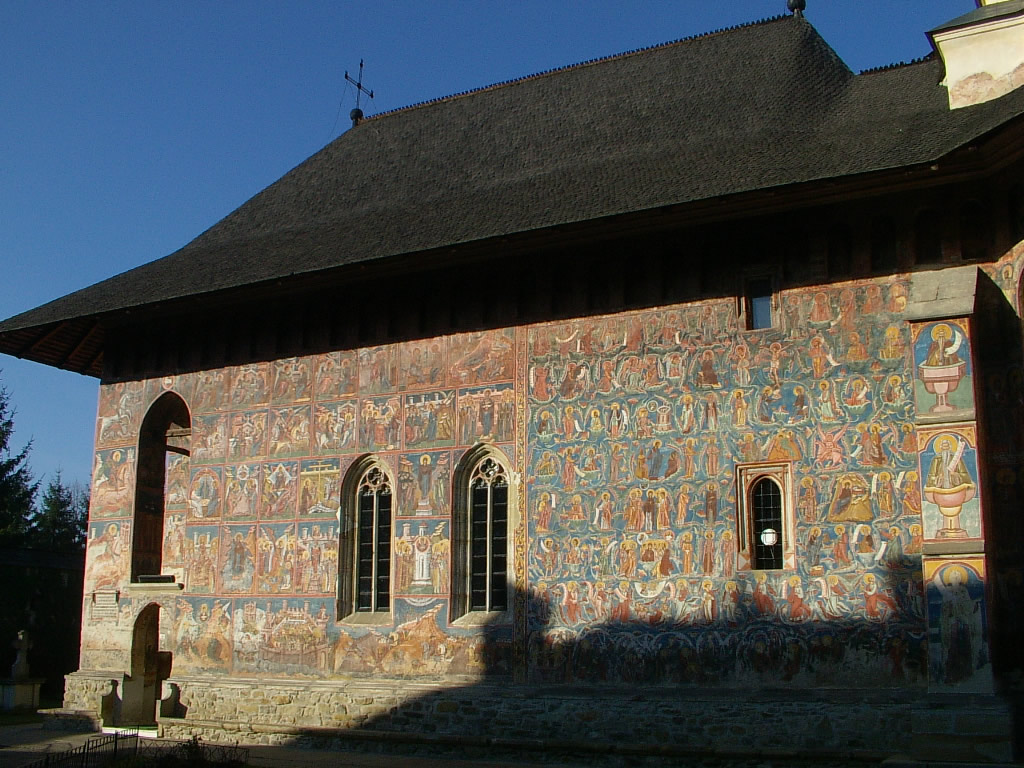 Monastery Moldovita